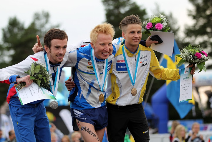 Mårten Boström, Scott Fraser and Jonas Leandersson